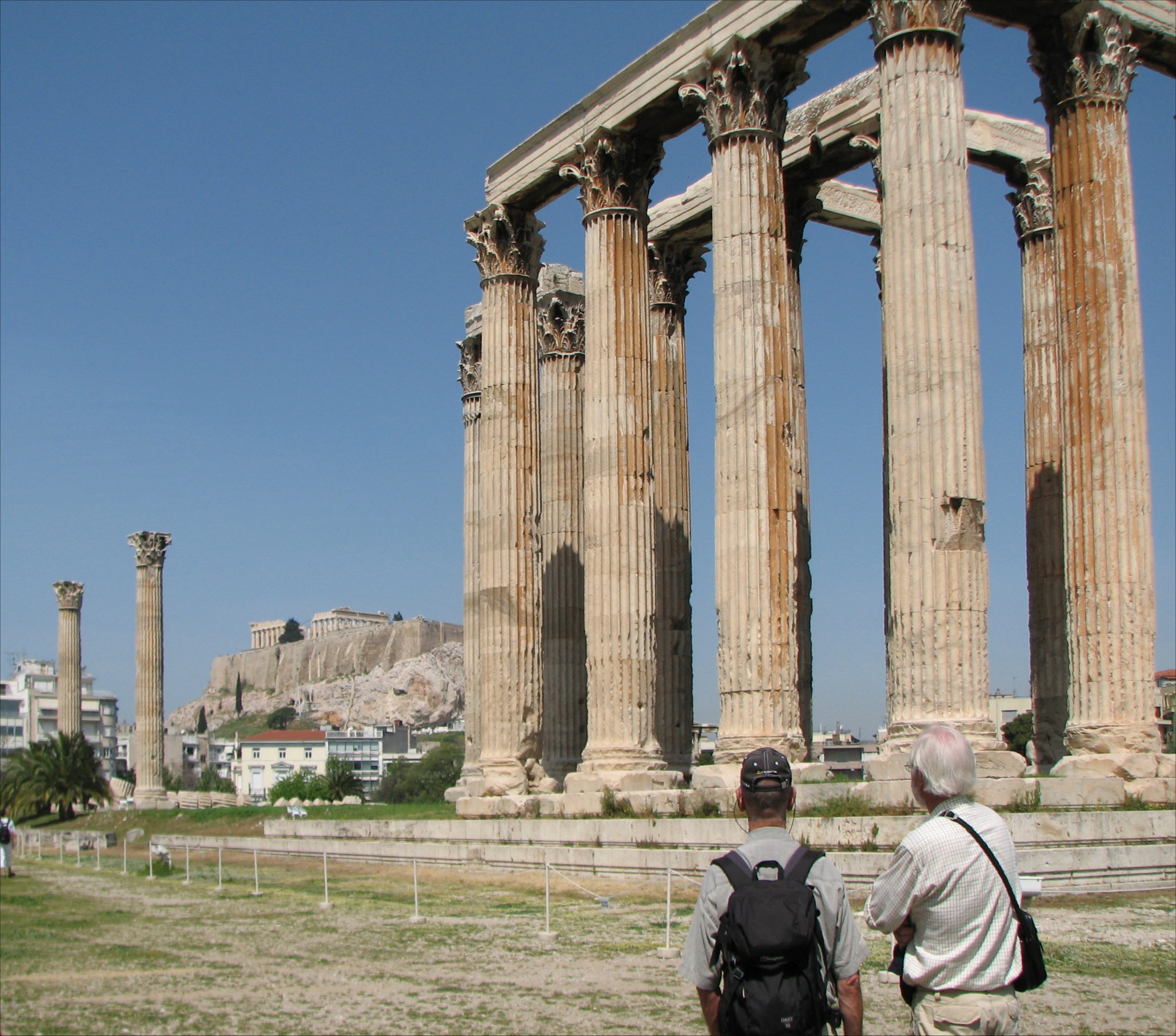 Temple of Zeus in Athens